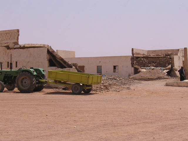 The effects of Moroccan air attacks can still be seen in the former Spanish Barracks of Tifariti.